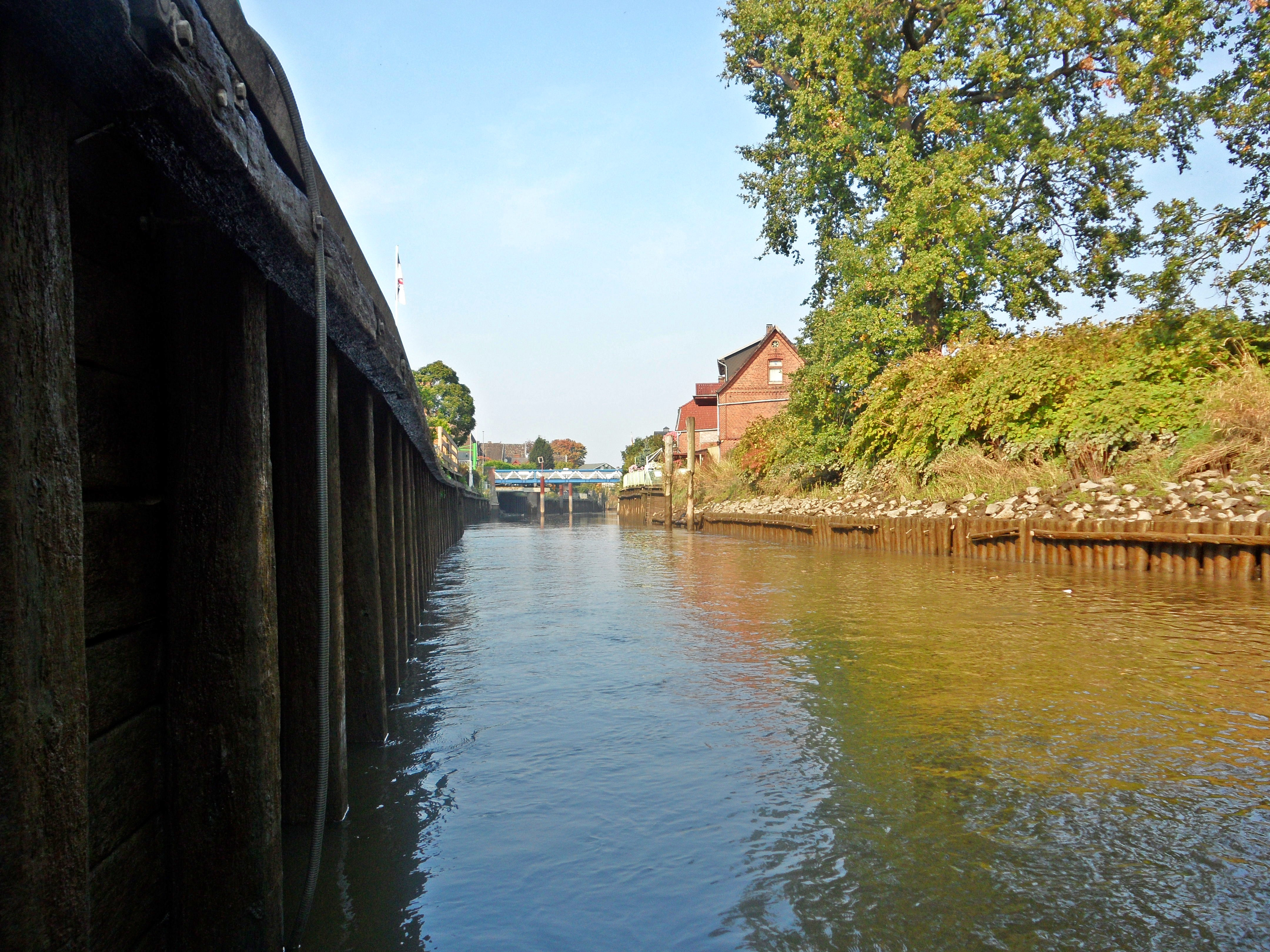 River Este in Estebrügge